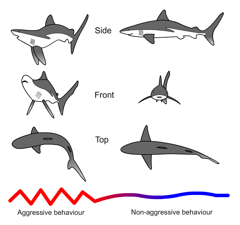 Threat display of a grey reef shark. The postures become more exaggerated as the danger perceived by the shark increases.